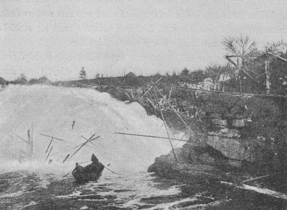 The Yngered rapids before impoundment. Tinber rafting in the river Ätran before 1905